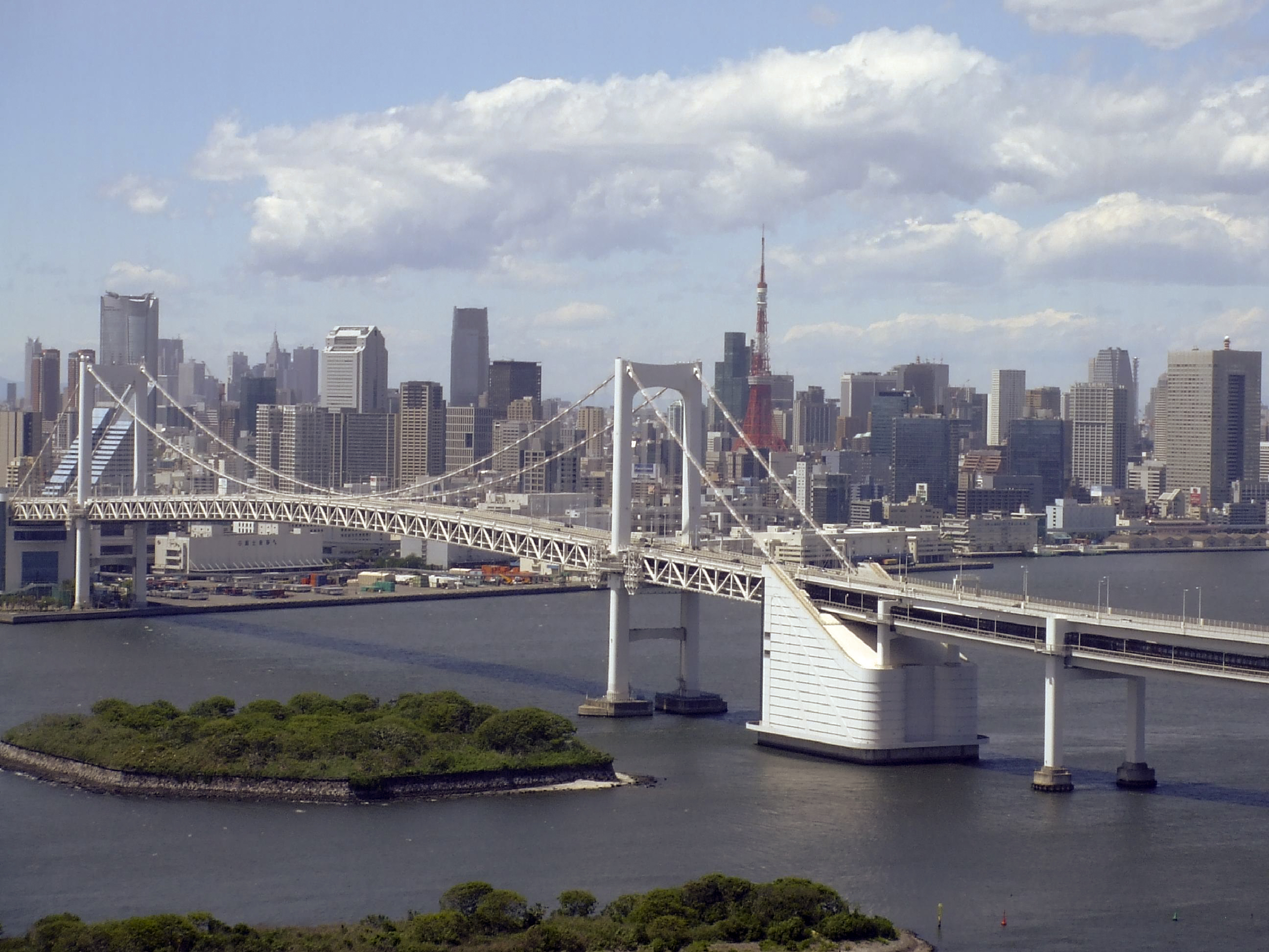 Tokyo view from Odaiba